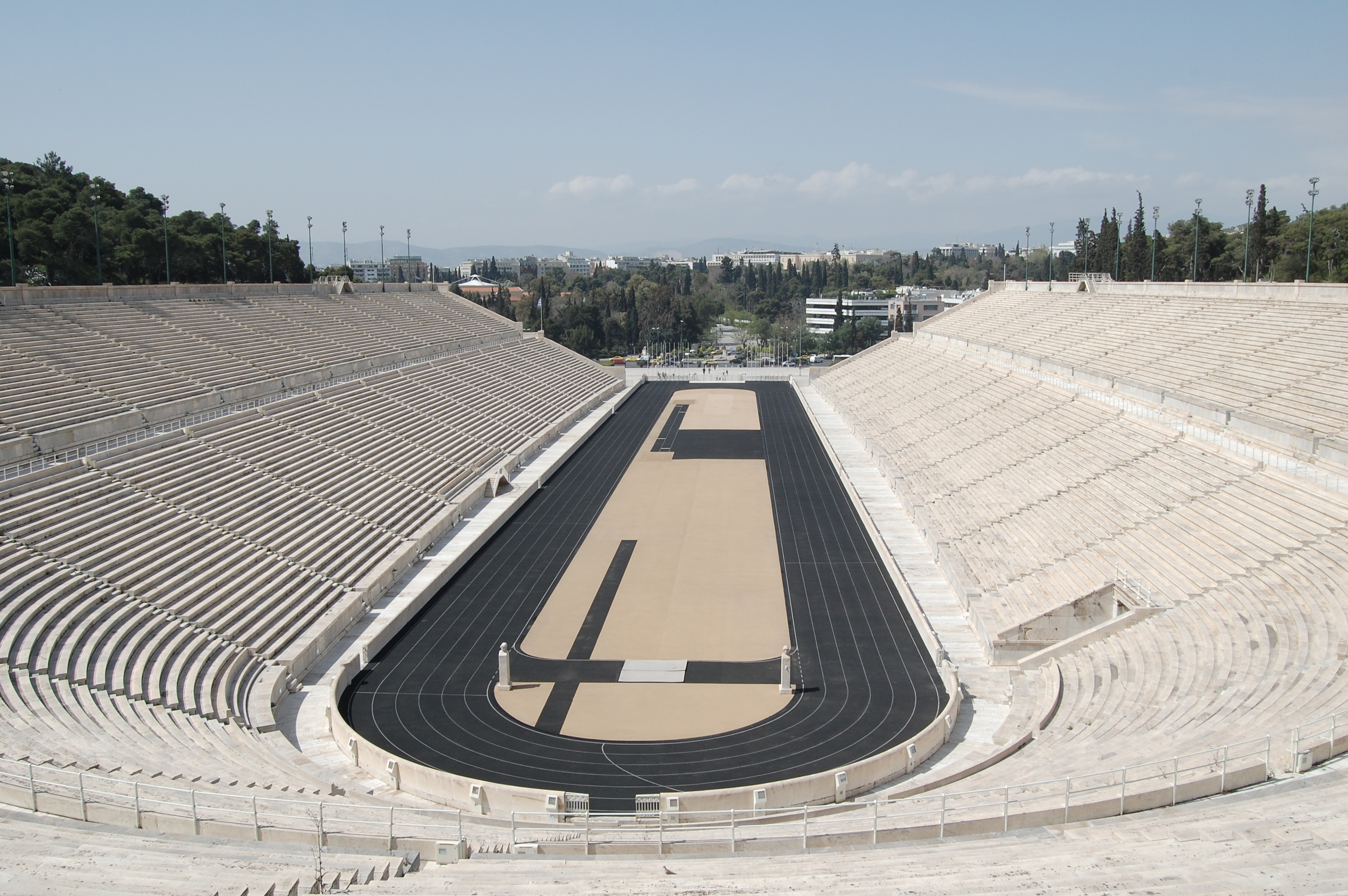 The Panathinaiko Stadium (Kallimarmaro) in Athens, Greece.